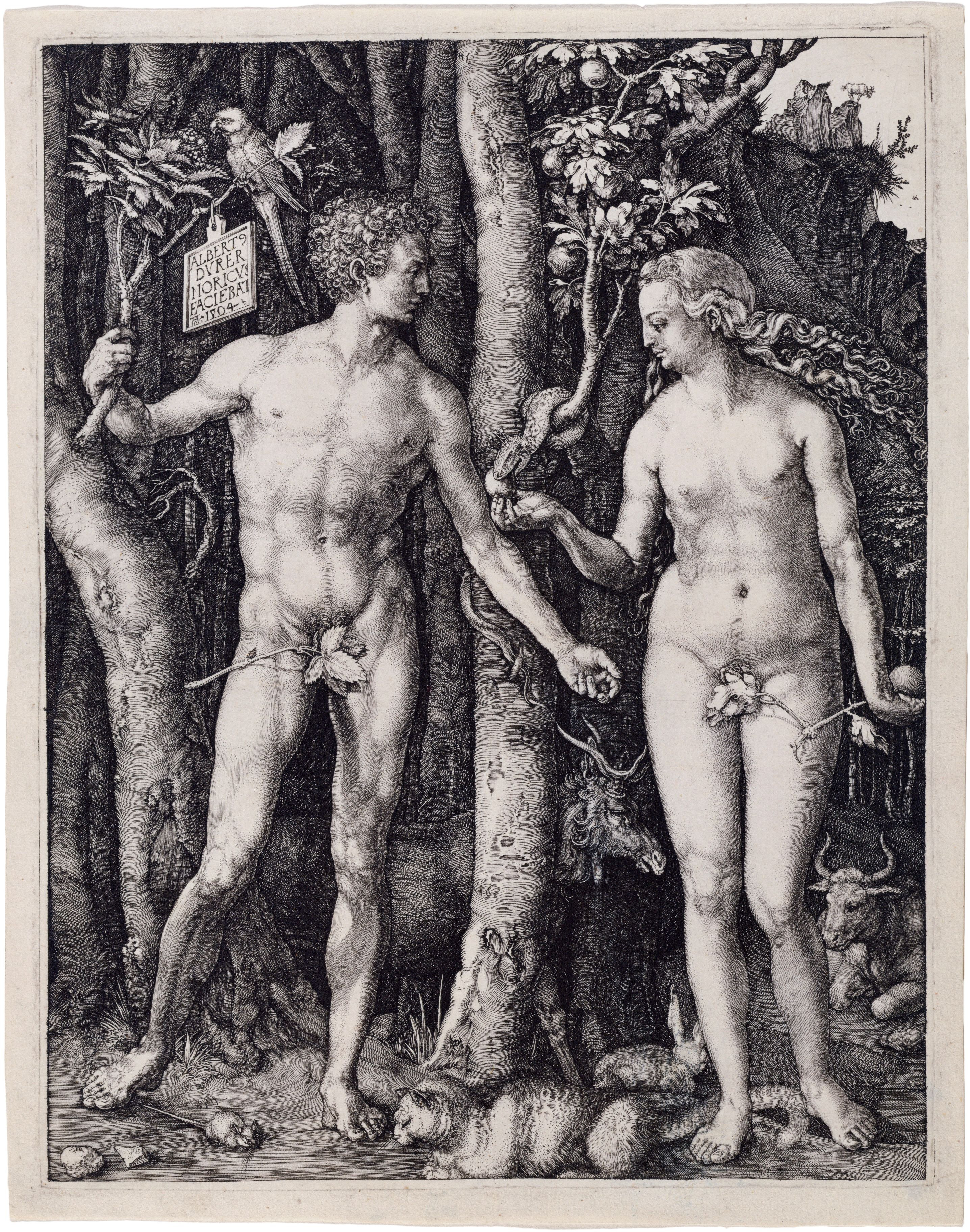 Adam and Eve standing on either side of the tree of knowledge with the serpent. In the foreground a cat.